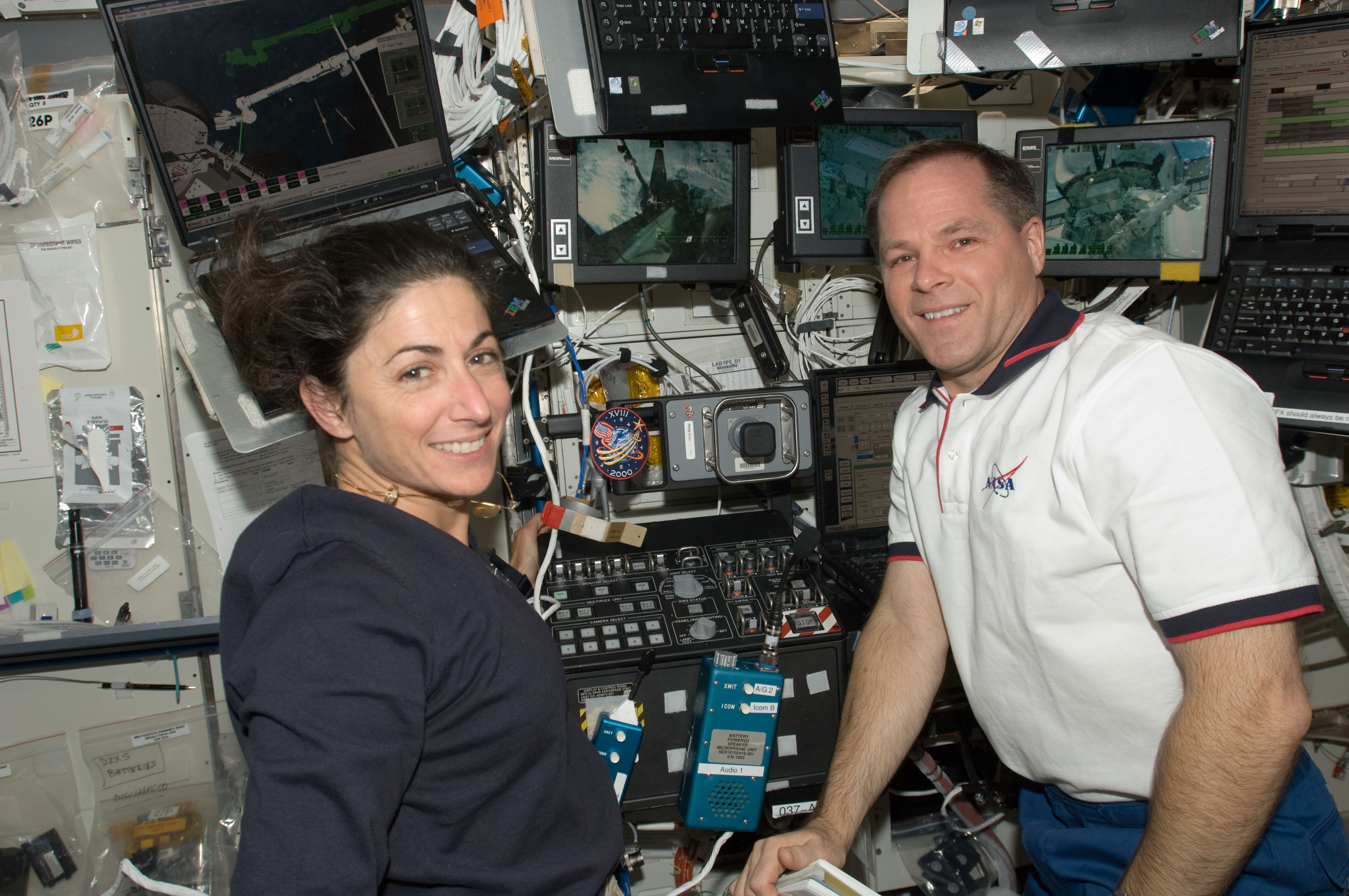 NASA astronauts Kevin Ford, STS-128 pilot; and Nicole Stott, Expedition 20 flight engineer, are pictured in the Destiny laboratory of the International Space Station while Space Shuttle Discovery remains docked with the station.